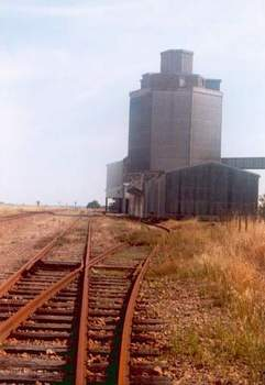 Small shortline for a grain elevator, Beauce, France.